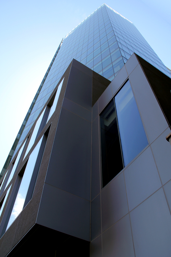 Building at 222 South Main Street in Salt Lake City, Utah USA 2009 - designed by architectural firm Skidmore, Owings & Merrill LLP